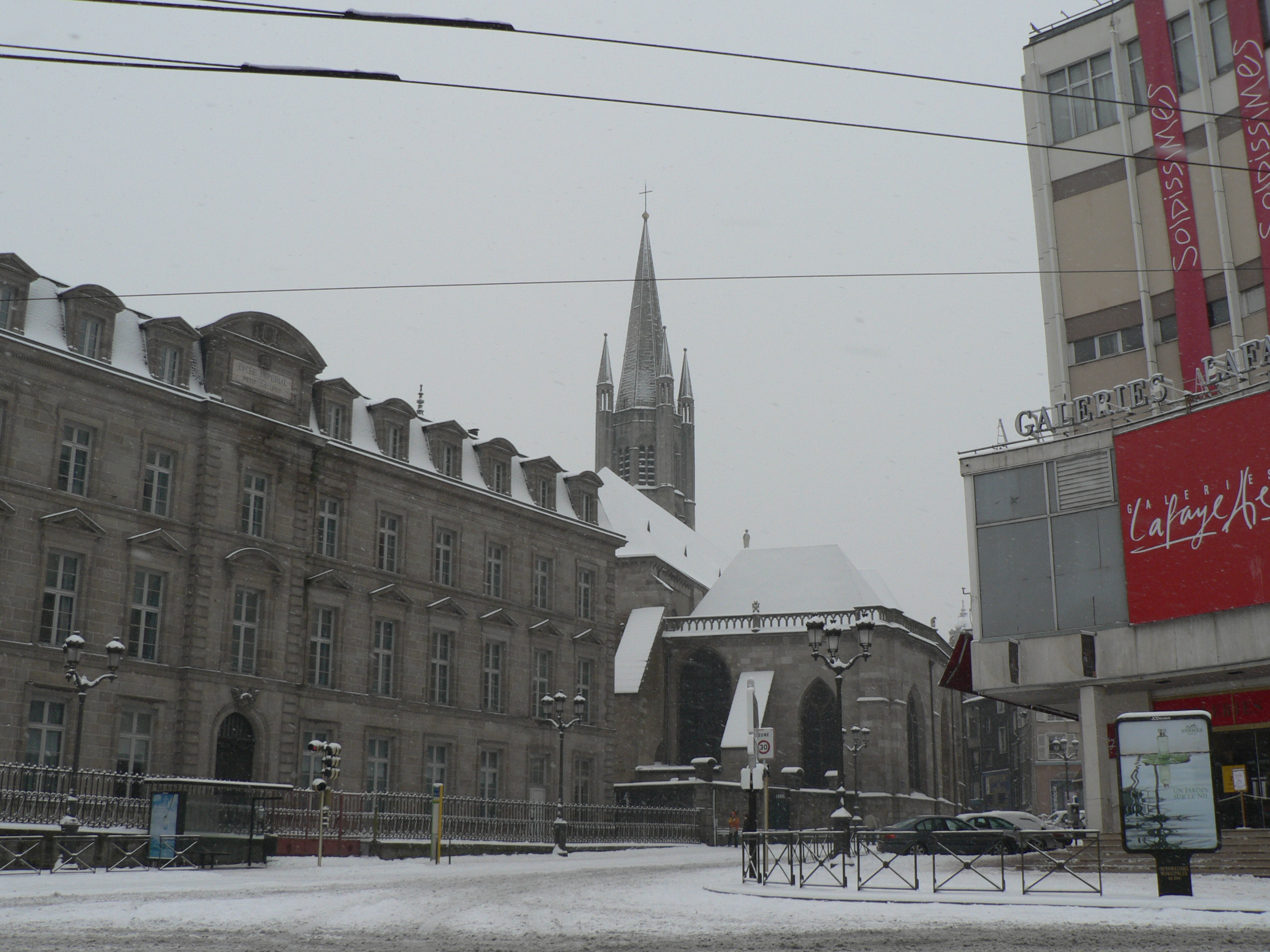 Limoges (Haute-Vienne, Limousin, France) : Carrefour Tourny under the snow.